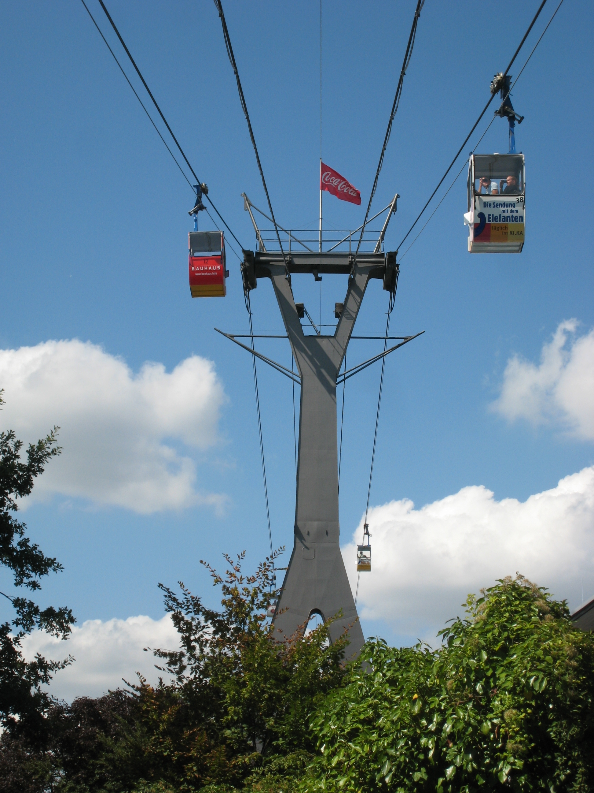 A pylon of the Rheinseilbahn in the Rheinpark in Cologne (Germany). It's the nearest pylon to station Rhine Park